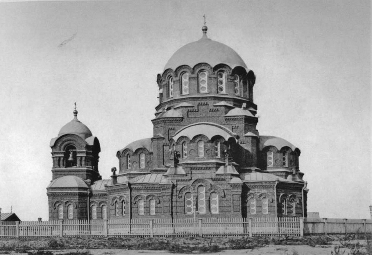 St. Alexander Nevsky Cathedral in Novonikolaevsk (now Novosibirsk), 1899